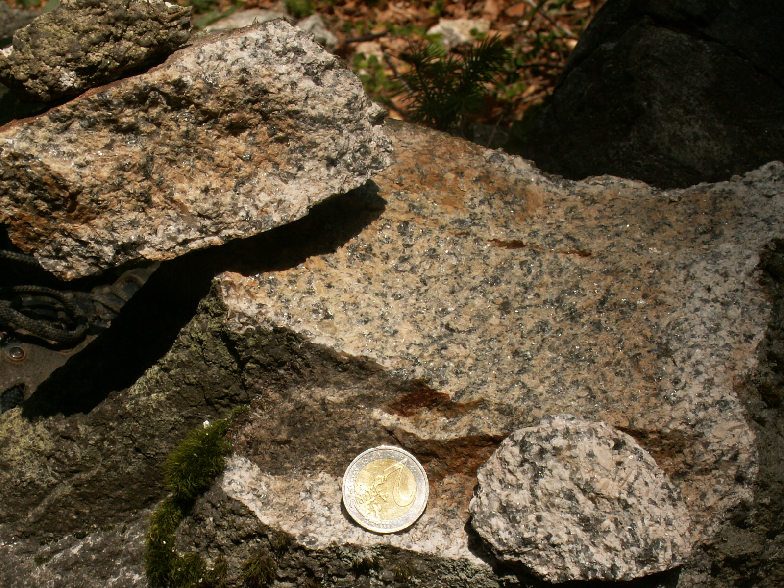 Permian granites of Gemeric superunit from the locality Súľová, Slovakia, Western Carpathians. 2 Euro coin as a scale. Grenites are characterized as so called specialized S-type with high content of rare elements and common ore content.